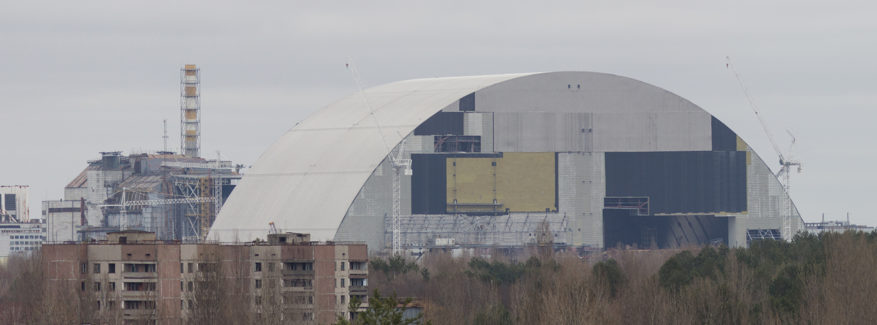 New Safe Confinement under construction in March 2016. Seen are the two sections joined together and nearing completion. Taken from a distance to show end profile of the confinement.